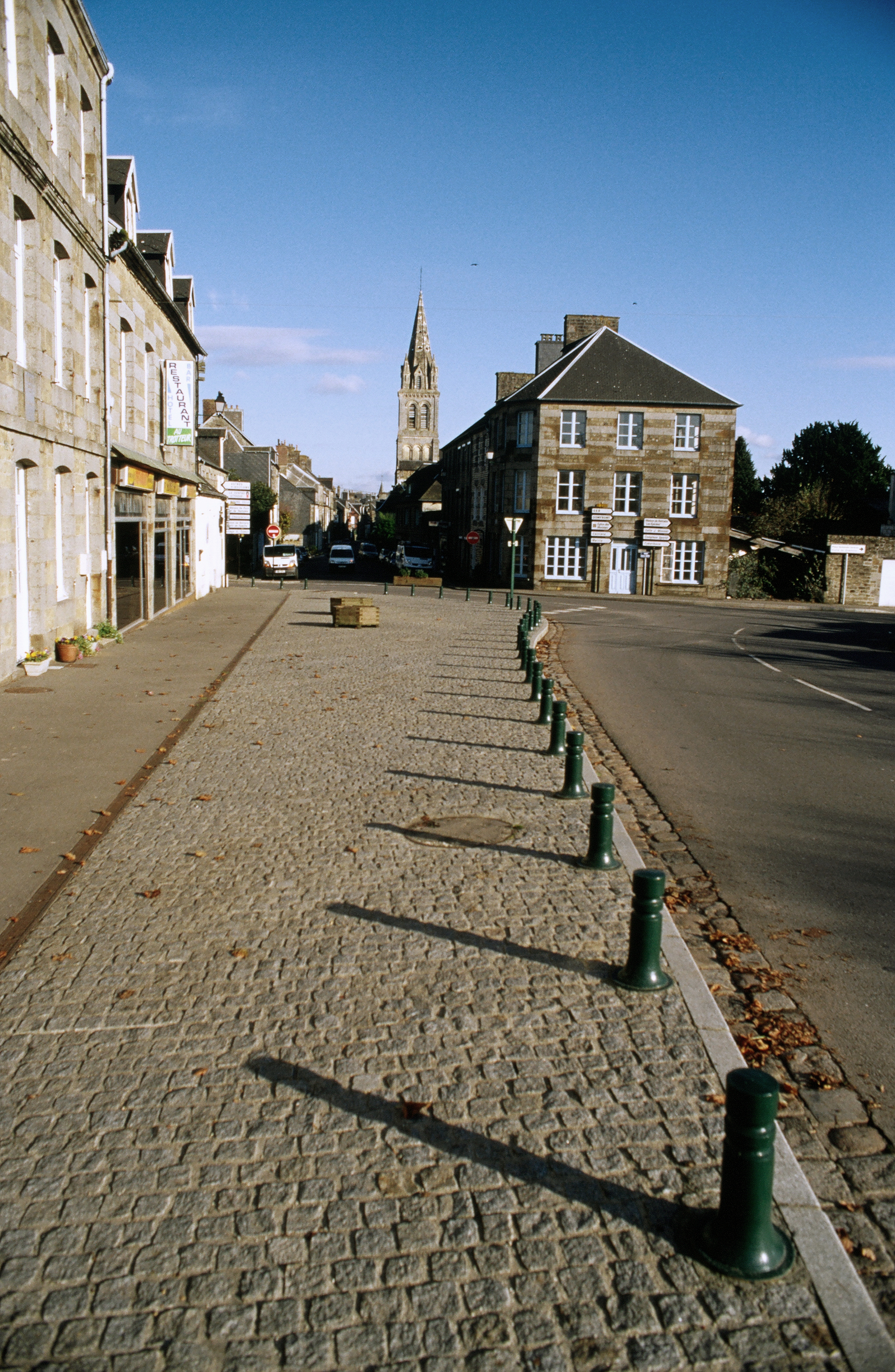 Tinchebray West and view of the Saint Pierre church.